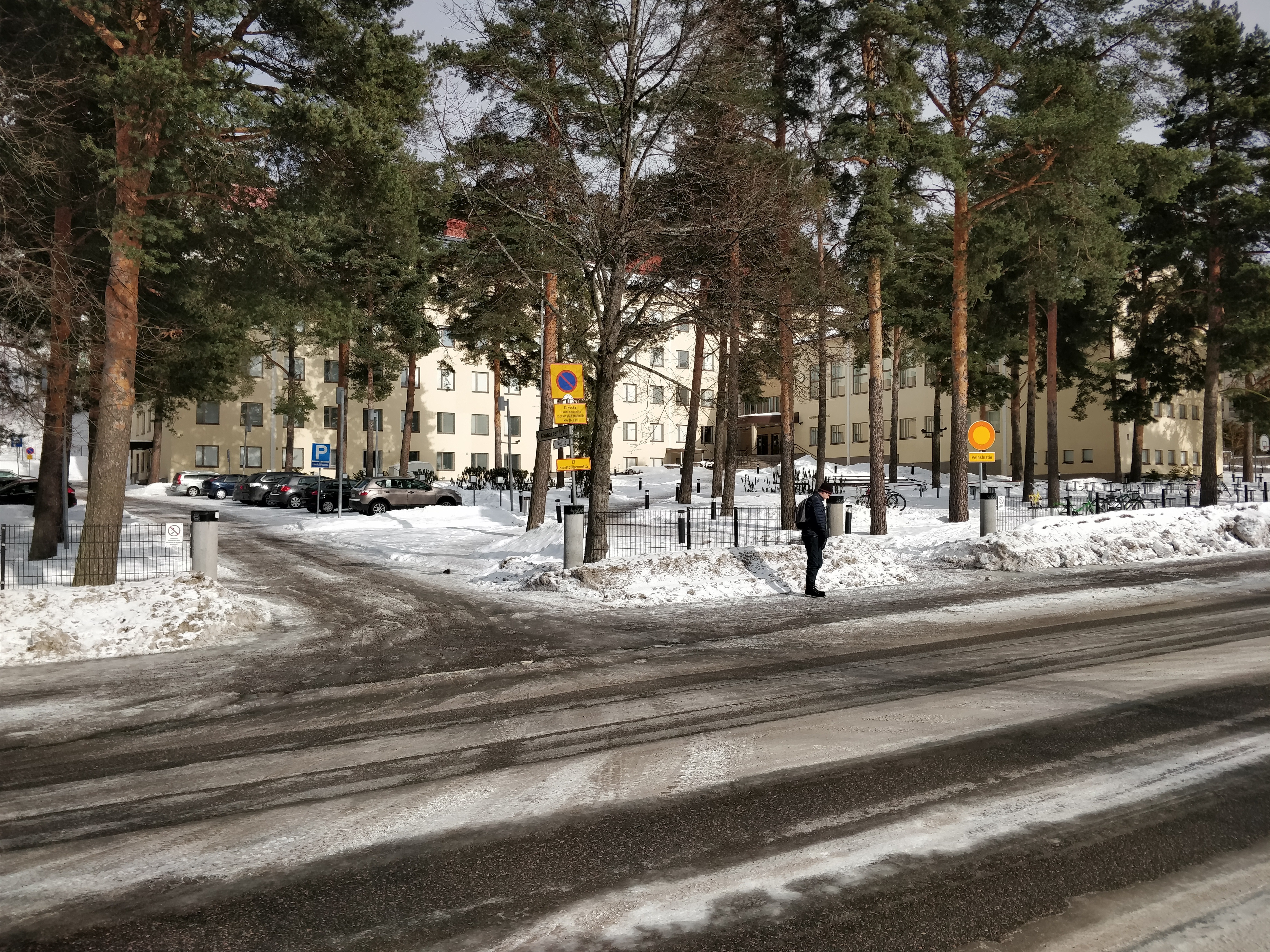 Picture of a building of Kannaksen lukio(gymnasium European academic secondary school), located in city of Lahti, Finland. Date: March. 15, 2018.